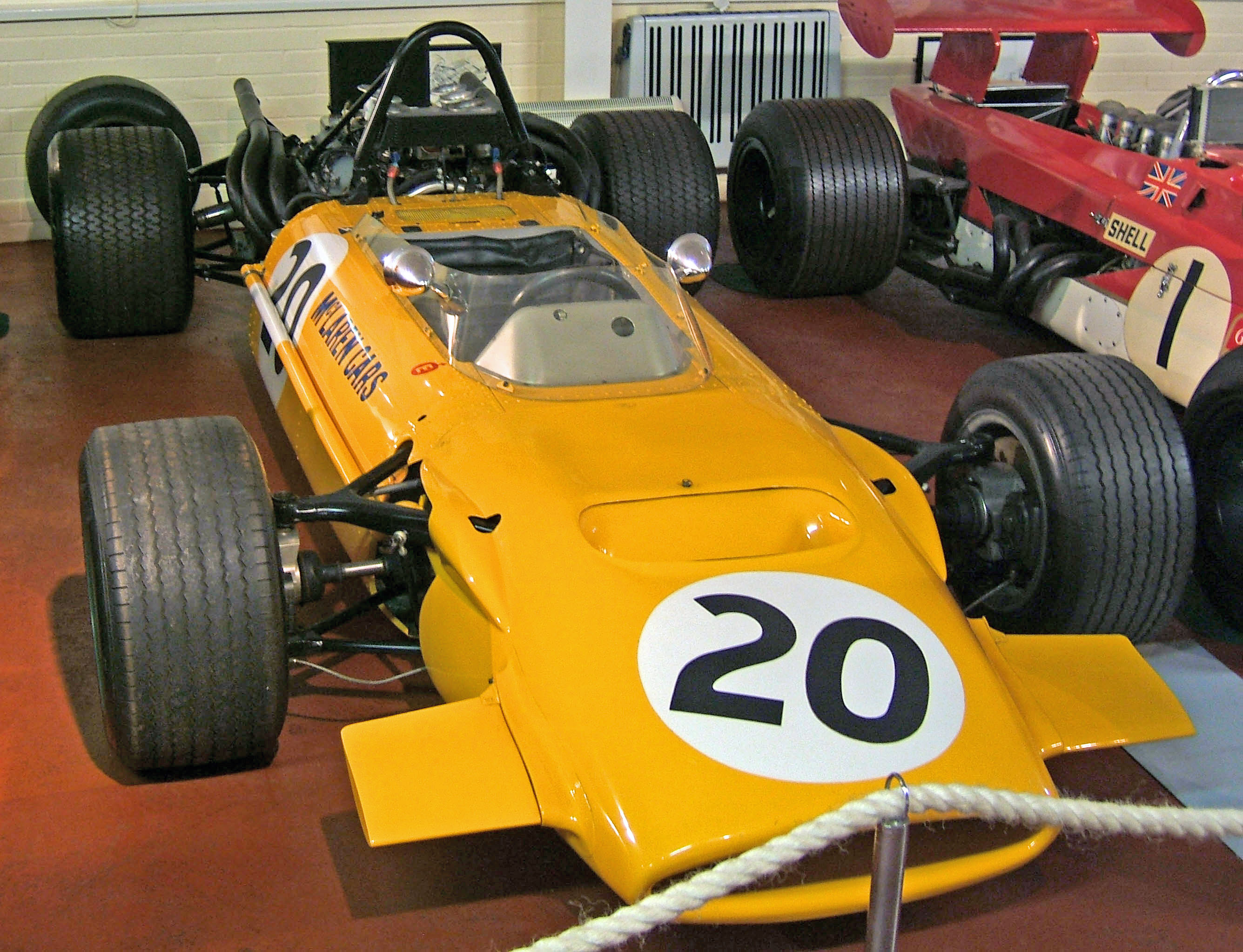 The McLaren M9A four-wheel drive Formula One car. In the Donington Collection museum, Leicestershire, UK.